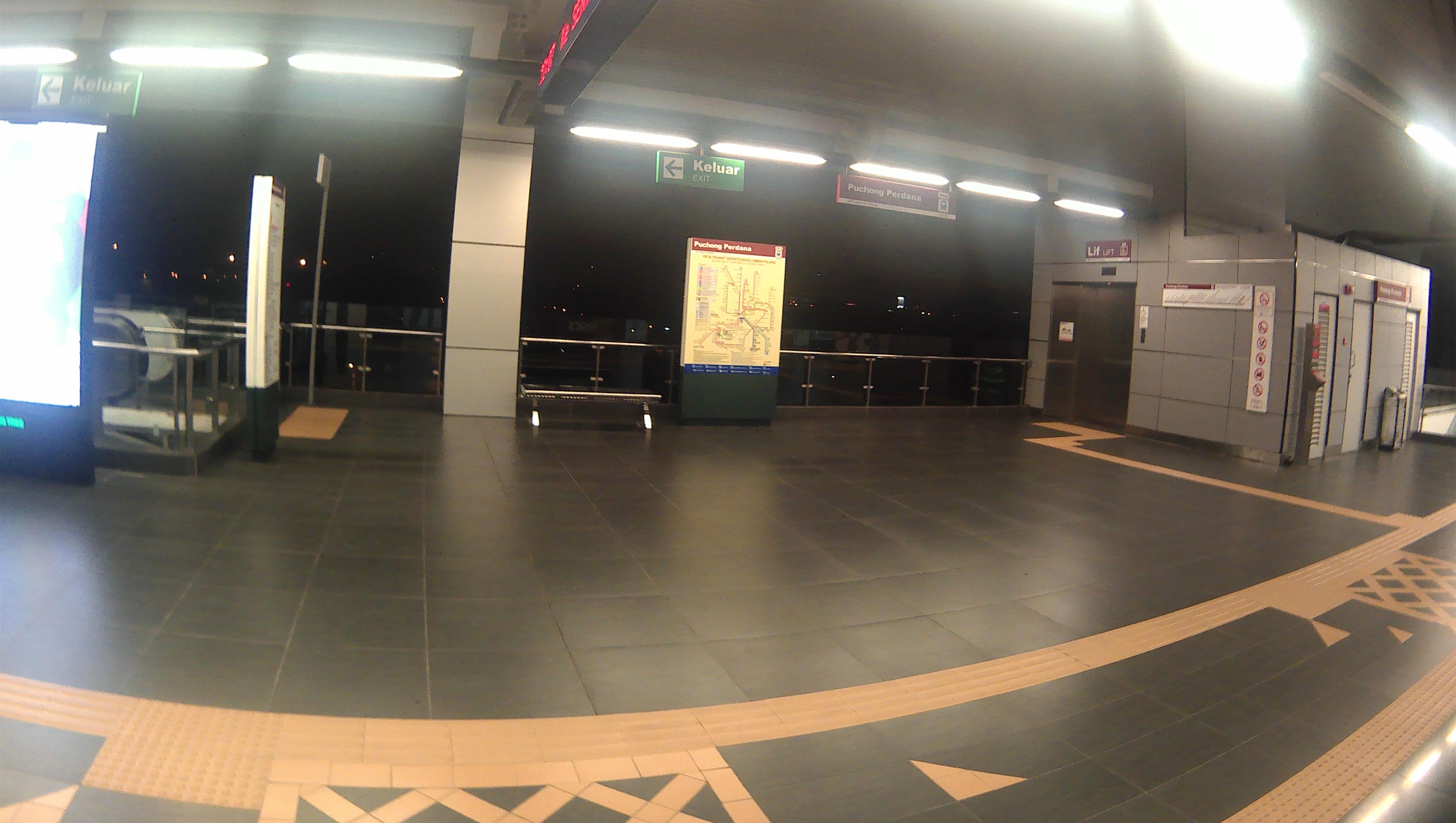 Puchong Perdana LRT Station